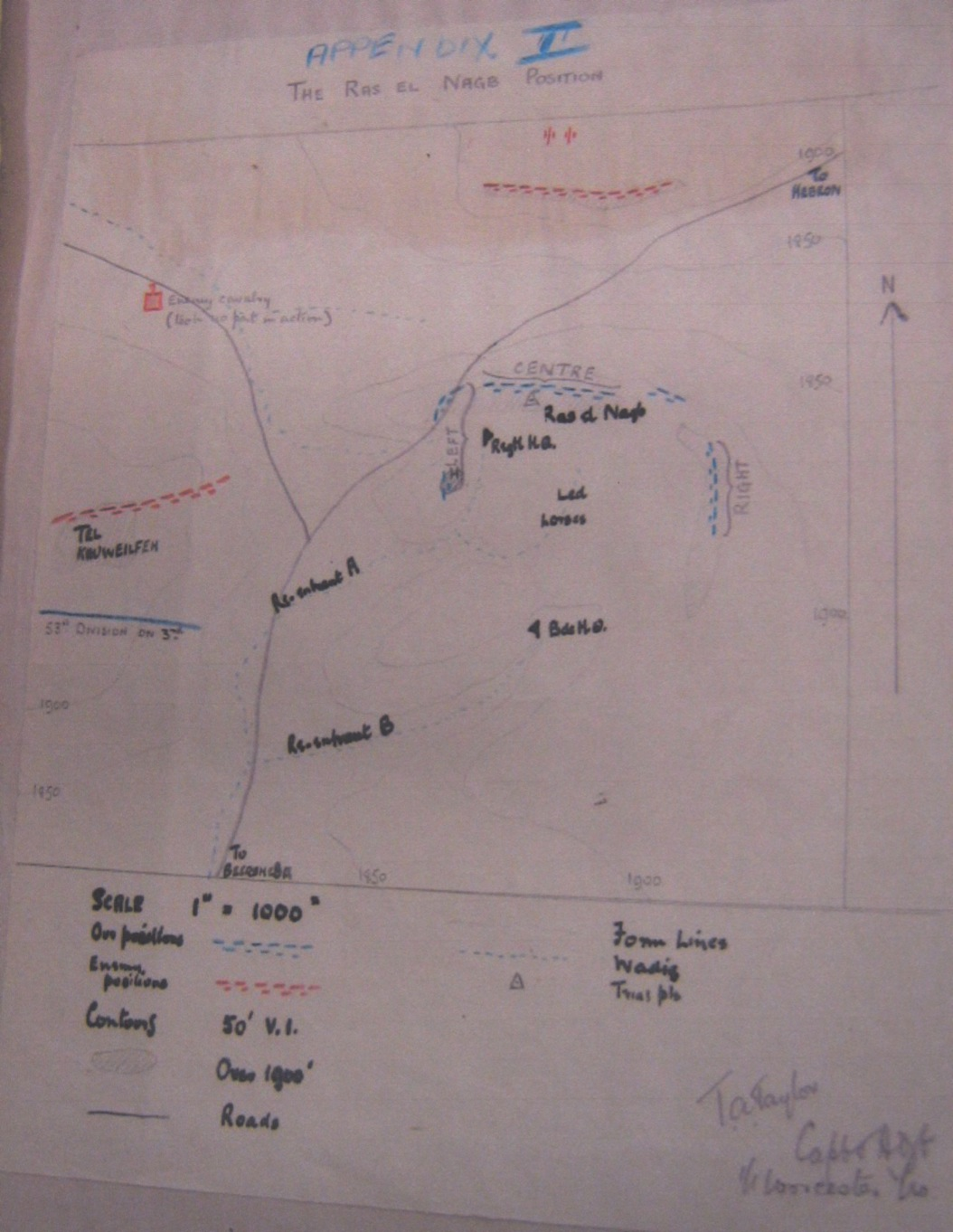 Map of Ras en Naqb position November 1917 Other information Crown copyright access unrestricted